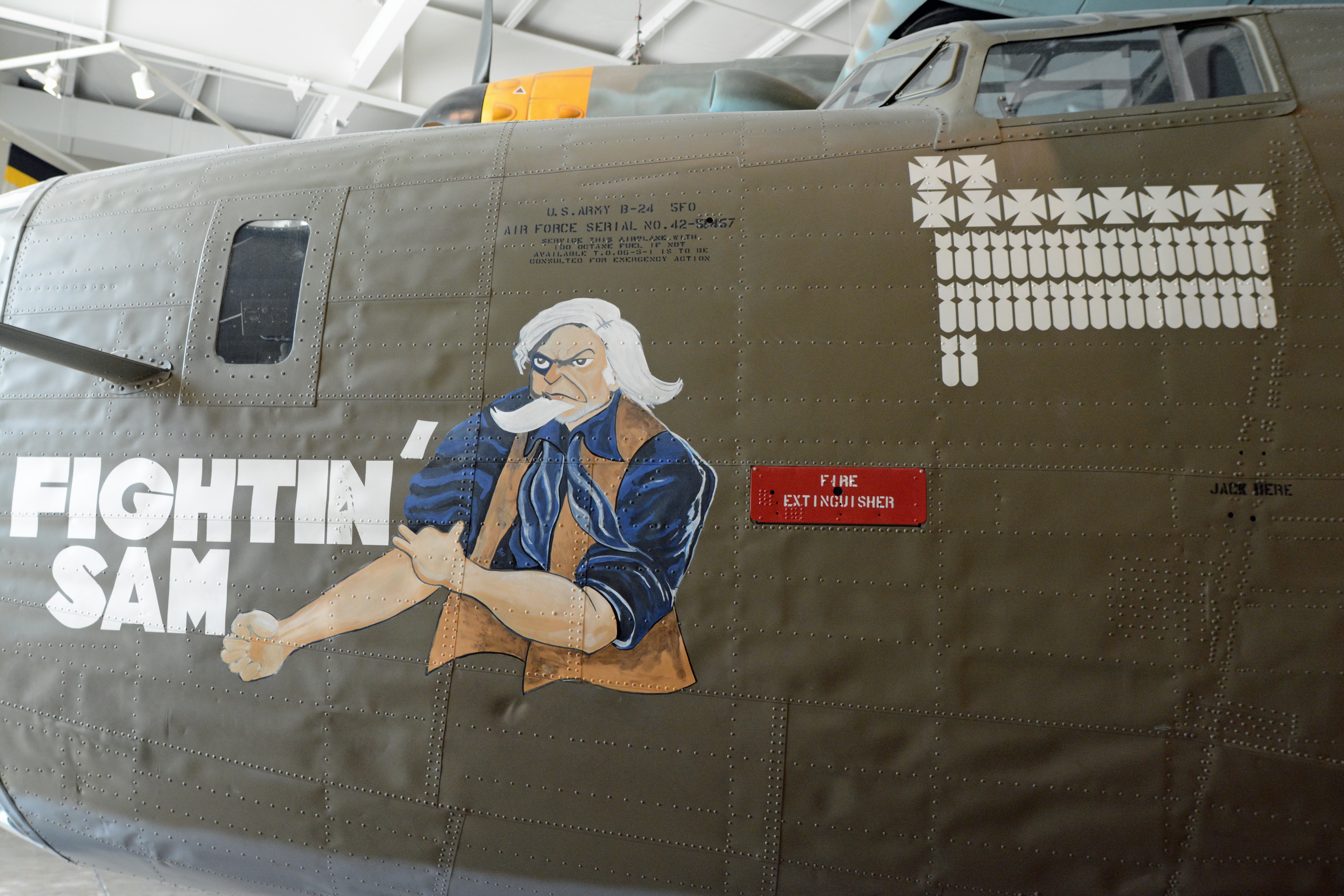 B-24 nose art at the Mighty Eighth Air Force Museum, Pooler, Georgia, US